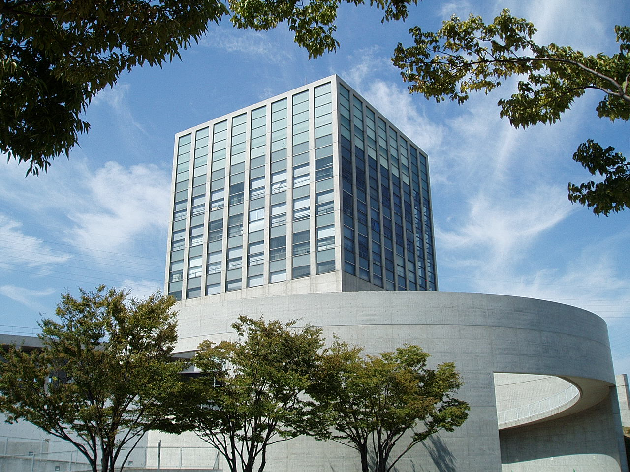 Akashi Campus, the University of Hyogo. Located in Akashi, Hyogo Pref., Japan.